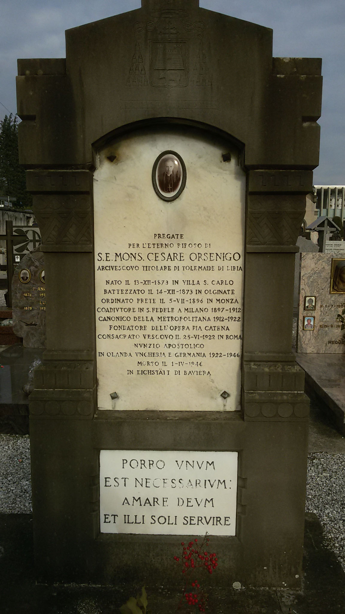 Tomb of Mons. Cesare Orsenigo in the cemetery of Olginate.